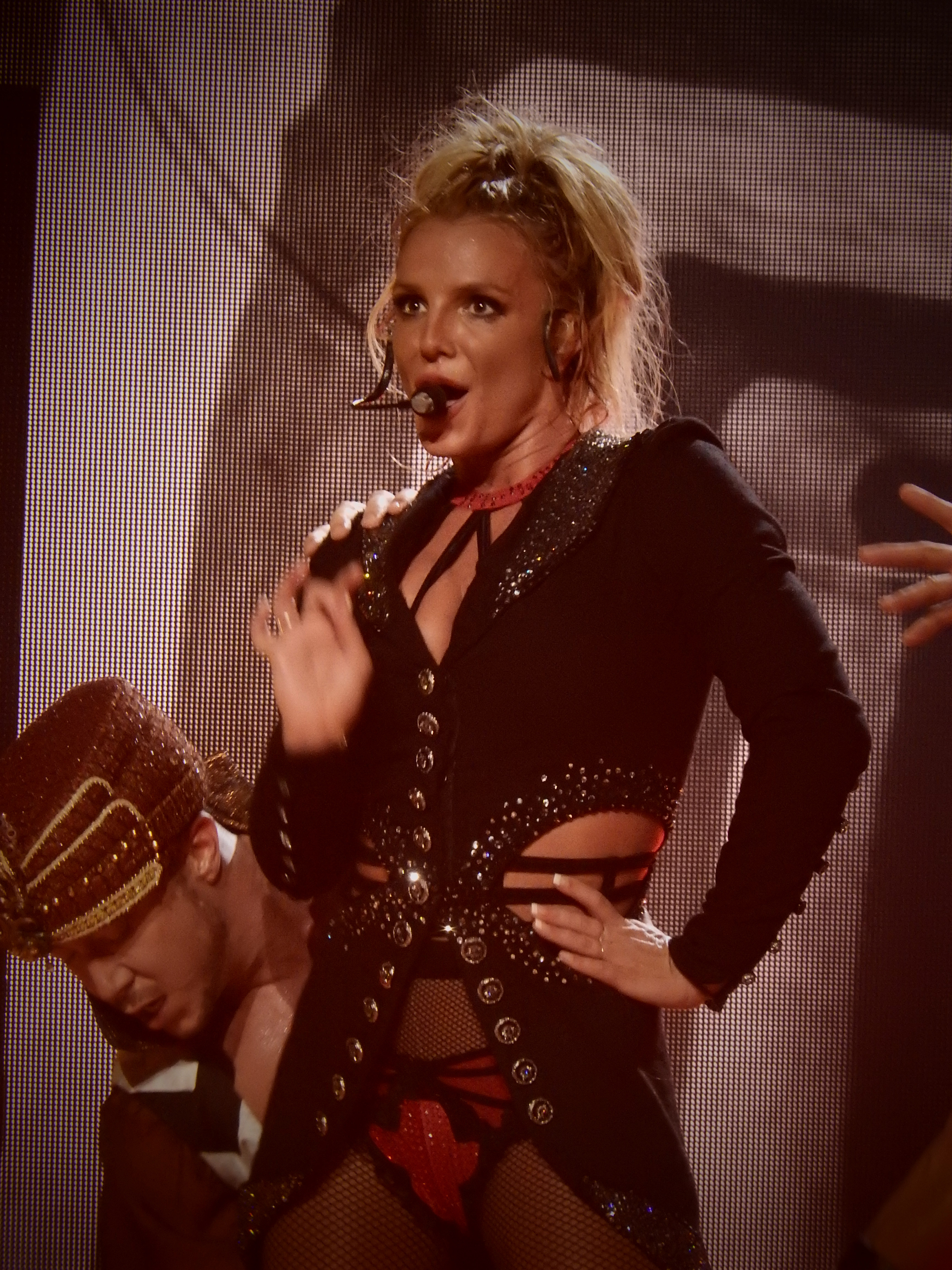 Britney Spears, Roundhouse, London (Apple Music Festival 2016)